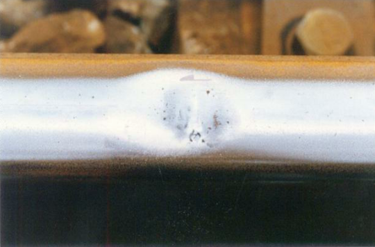 Squat appaering as a dark spot on the top of the rail